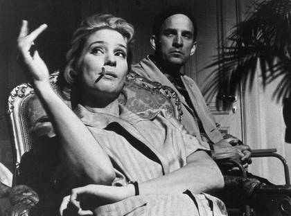 Ingmar Bergman (1918-2007), Swedish stage and film director, and Ingrid Thulin (1926-2004), actress. Photo: During the production of The Silence (Tystnaden), 1963. Svensk Filmindustri (SF) press photo, Photographer unknown.